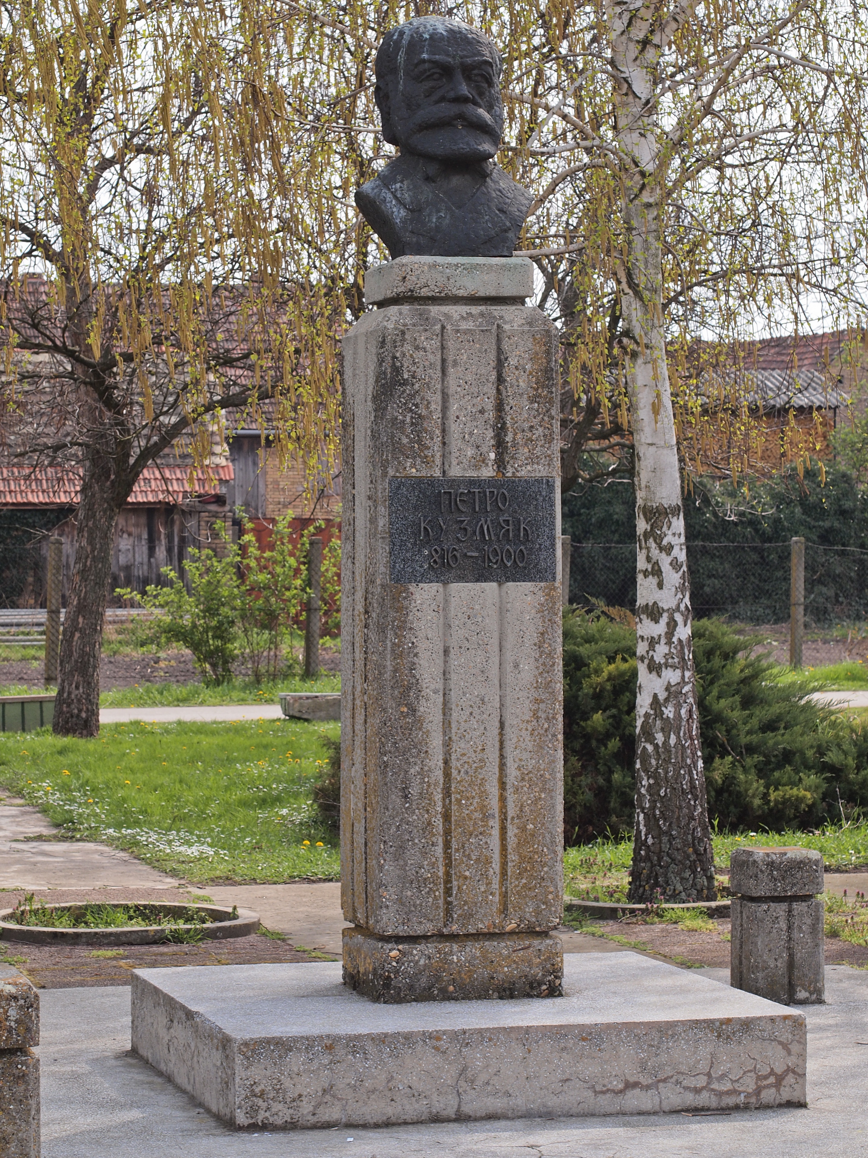 Ruski Krstur, Vojvodina, Serbia. (Time in EET.)